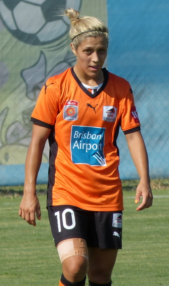 Katrina Gorry (Brisbane Roar Women), 12 January 2014, AJ Kelly Fields